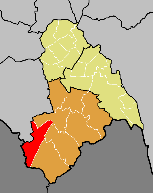 The ward of Coulsdon West (red) shown within the Croydon South constituency (orange) within the London Borough of Croydon (yellow).